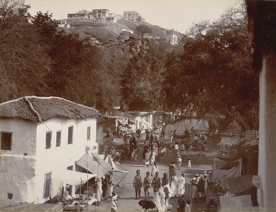 Photograph of Maula Ali Hill, from the Macnabb Collection (Col James Henry Erskine Reid): Album of Indian views, taken in the early 1900s. The view was taken in Secunderabad, Andhra Pradesh and shows a bazaar with Maula Ali Hill in the background. The Shrine of Maula Ali is located on the hill, together with a mosque and other ancient ruins including an old fortress and a large prehistoric cemetery.